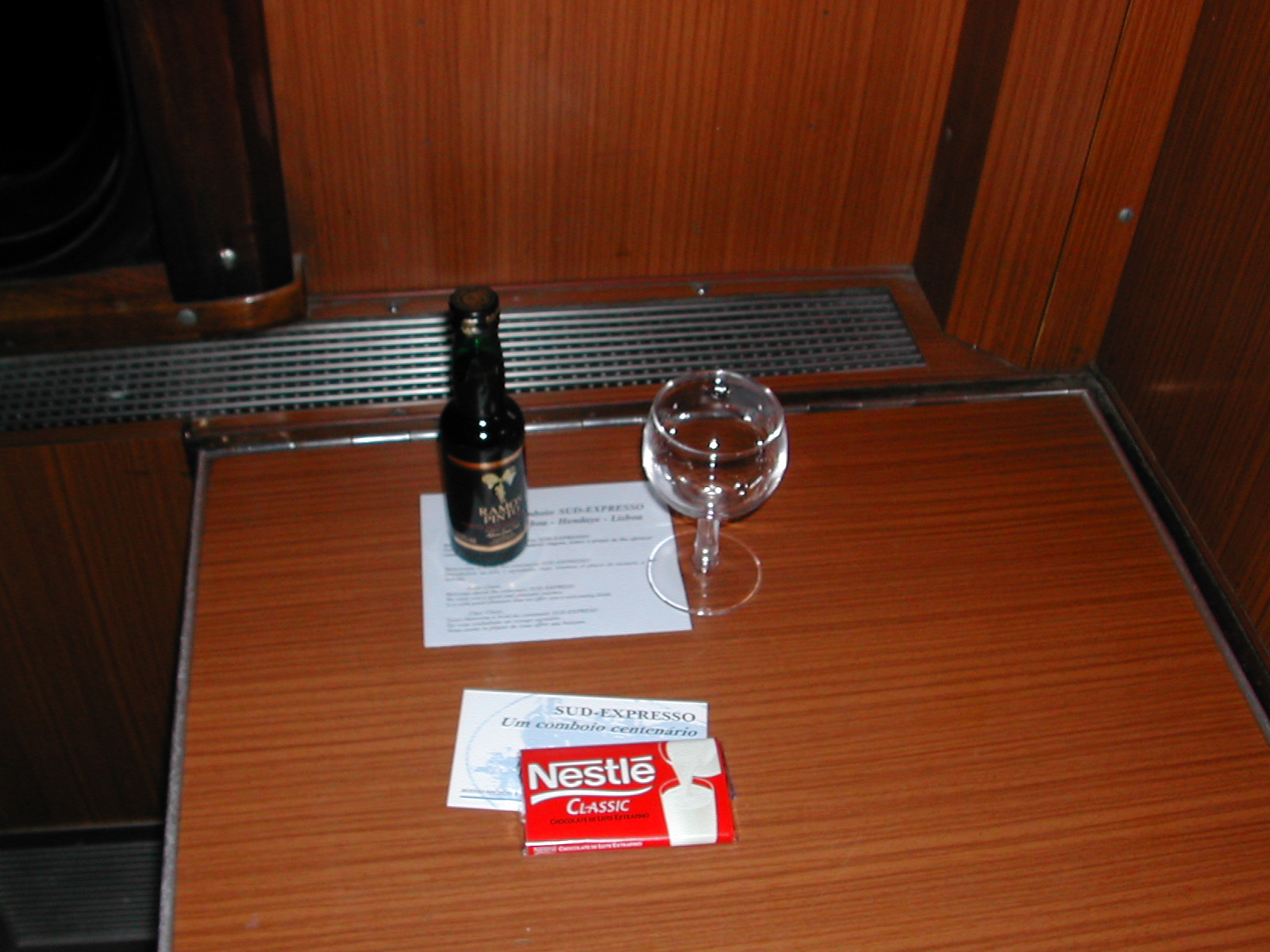 Sud Express table